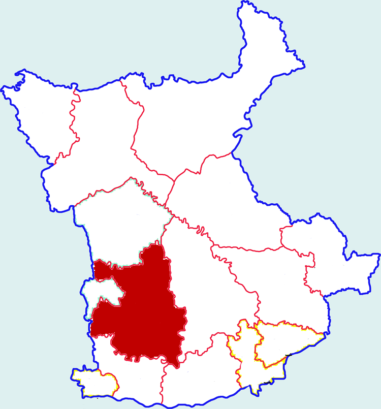 Location of Qian county in Xianyang city, China